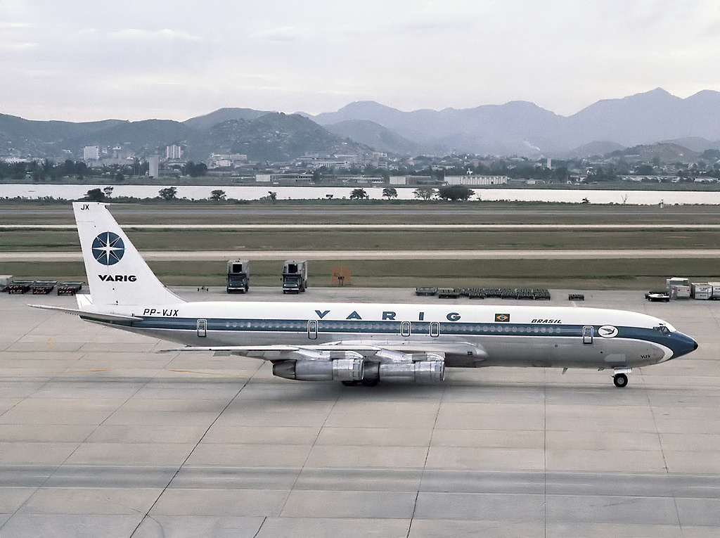 A Varig Boeing 707-345C at Galeão Airport (GIG / SBGL)